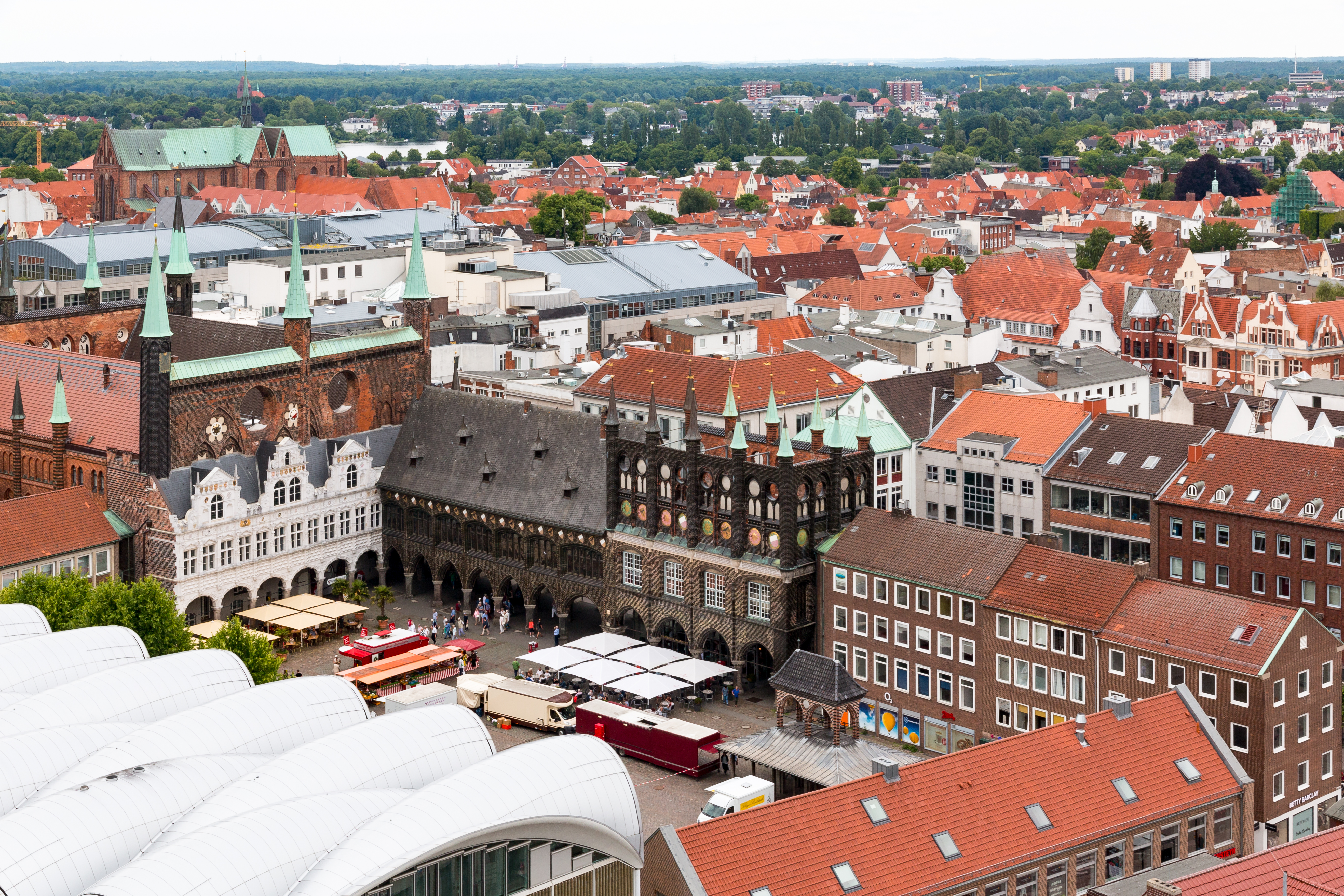 Town hall, Lübeck, Schleswig-Holstein, Germany This is a photograph of an architectural monument.It is on the list of cultural monuments of Lübeck